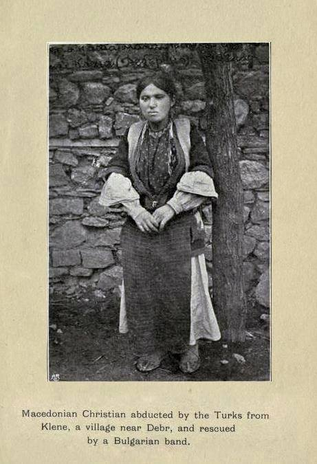 Bulgarian Klene Girl